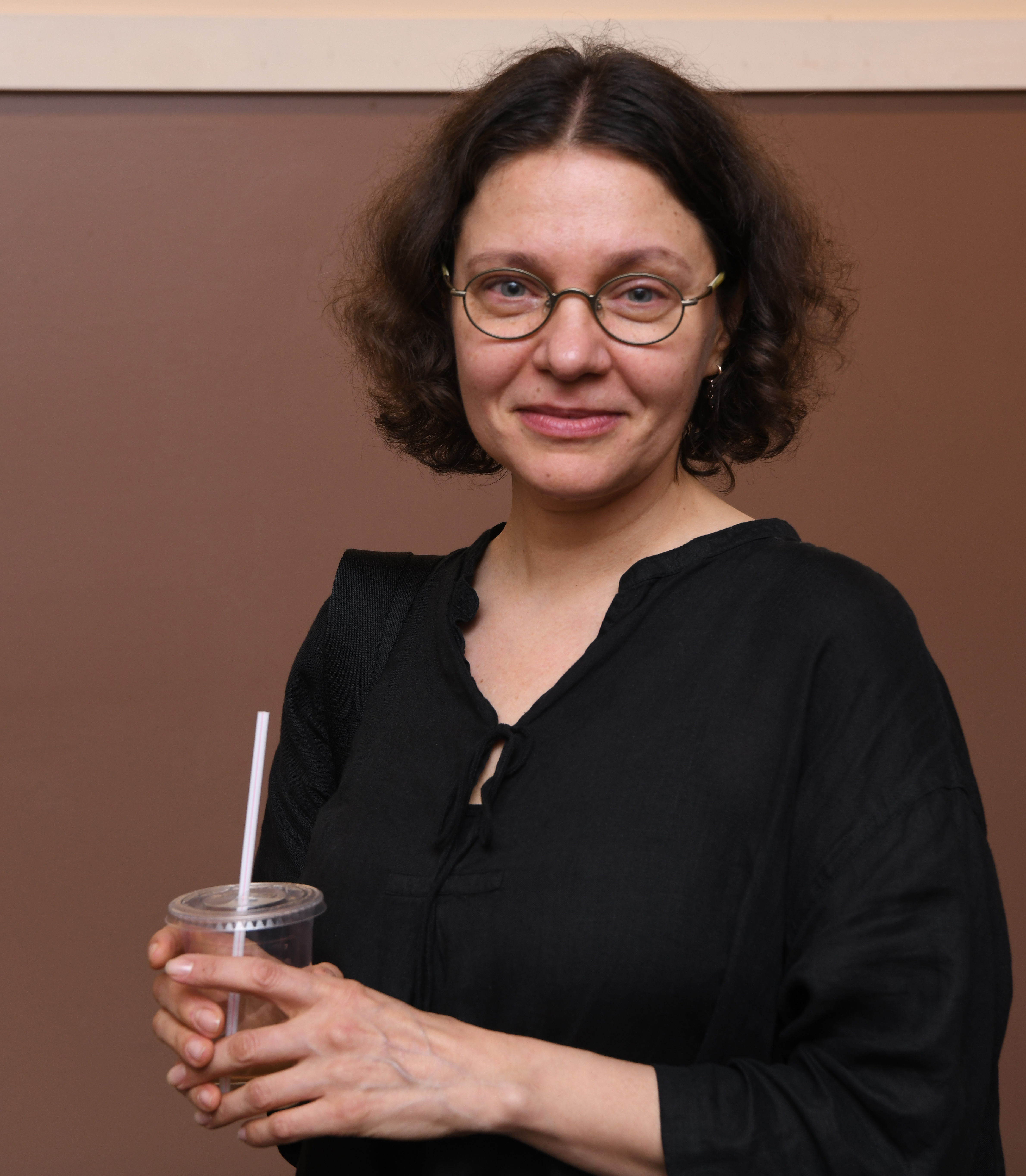 Ukrainian filmmaker Olena Demyanenko visiting Ukrainian Film Days in Toronto, 2019